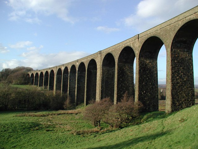 Hewenden Viaduct Viaduct across the Hewenden Beck valley on the dismantled railway line southeast of Cullingworth, looking north from the Millennium Way near the northeast corner of Hewenden Reservoir.